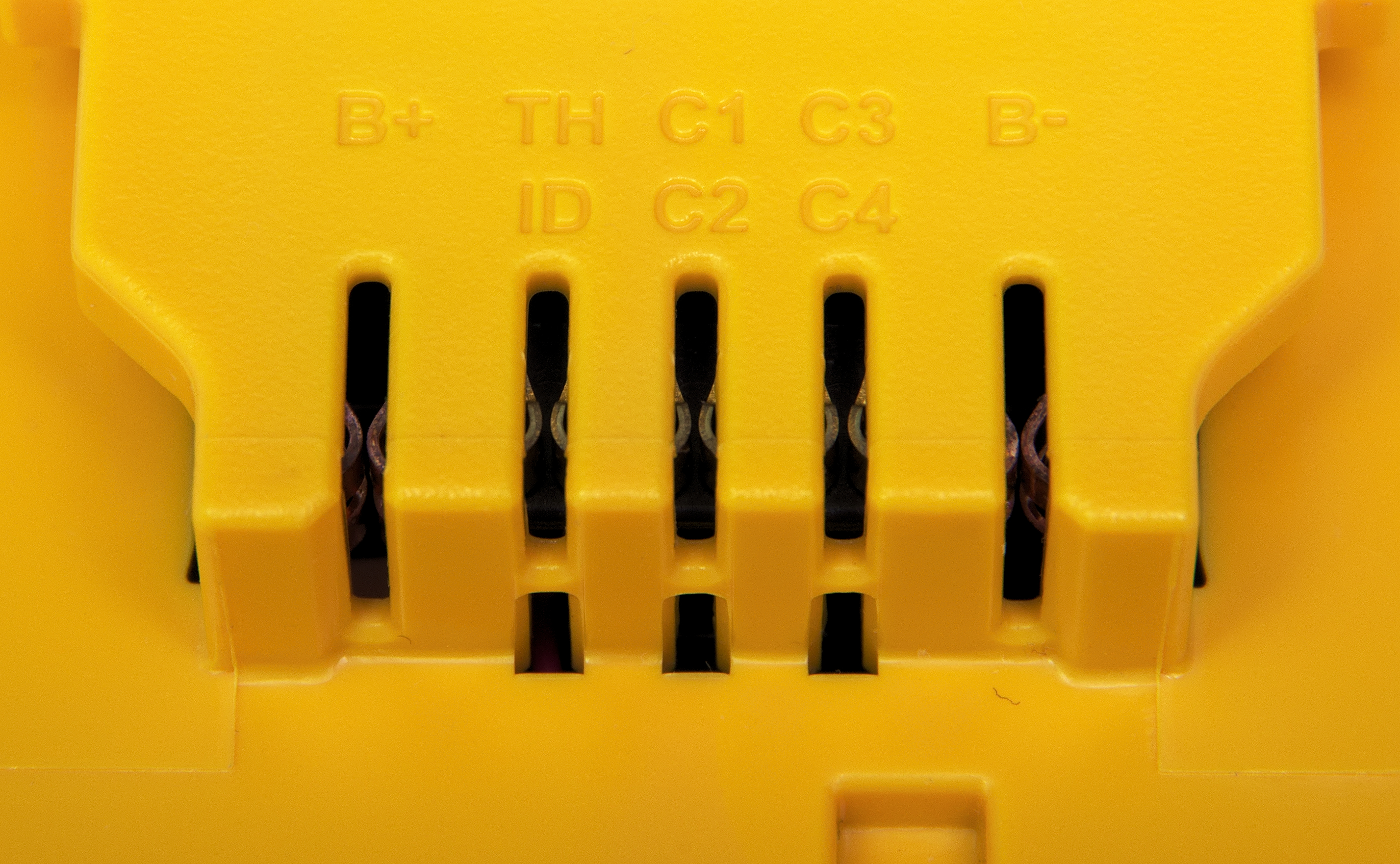 The contacts on a DeWalt 20V Max lithium-ion battery used in power tools. Four of these contacts, labeled C1 through C4, are used along with the terminals B+ and B- for battery balancing; they are connected to the individual cells inside the battery, which allows the charger to charge them evenly.